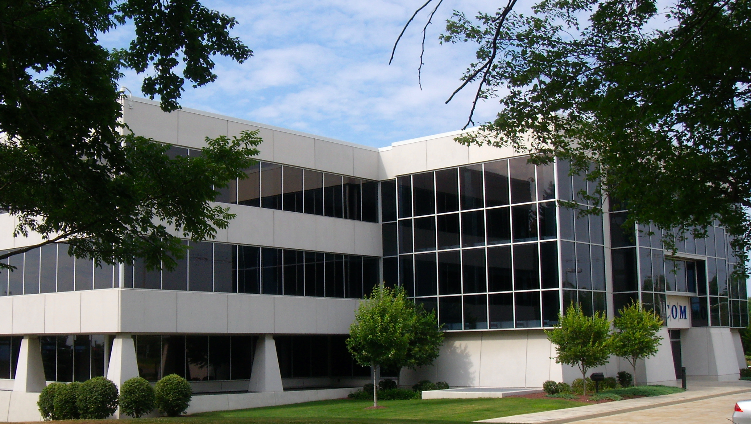 The LECOM medical school in Erie, Pennsylvania was taken on 28 June 2007 by Pat Noble